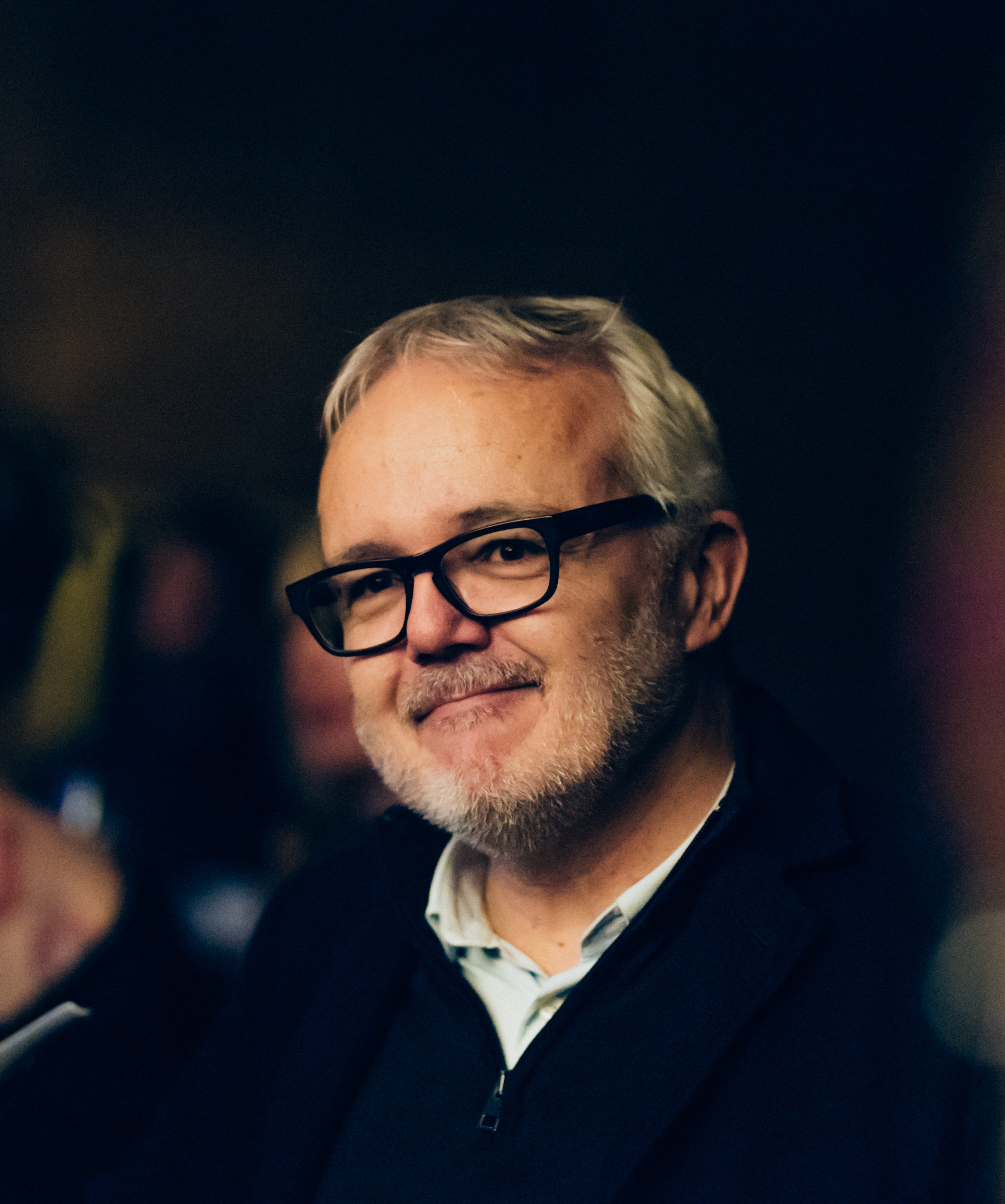 Peter Bale at the 2019 Freedom of Expression Awards (Photo: Elina Kansikas for Index on Censorship)